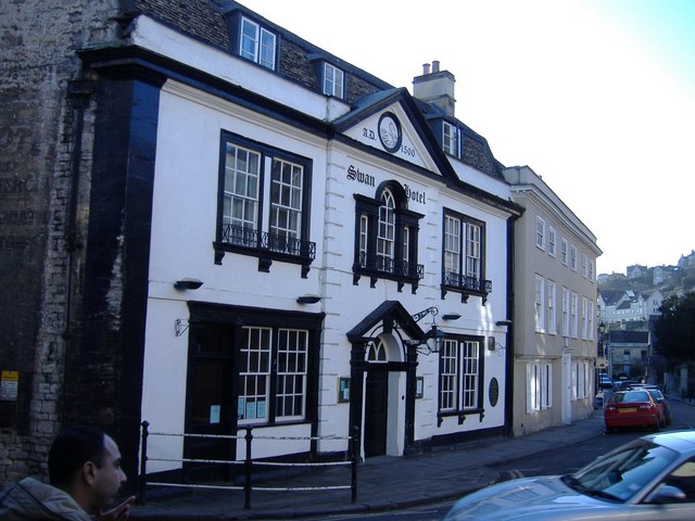 The Swan Hotel, Bradford on Avon At the junction of Market Street and Church Street.